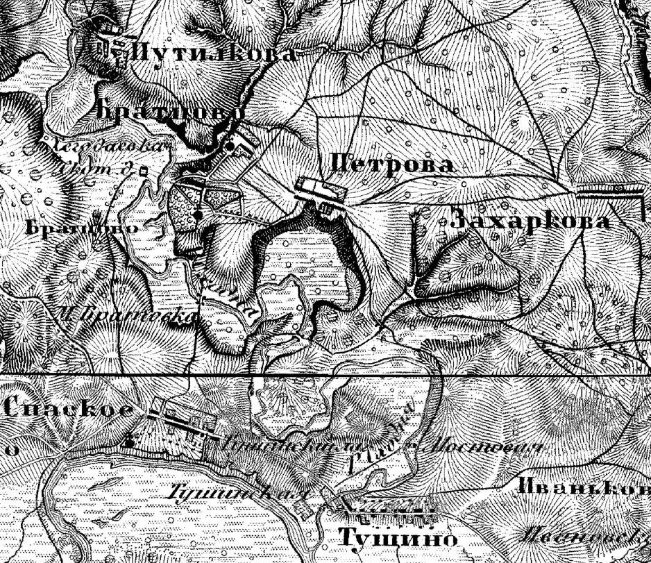 Skhodnya River in 1860